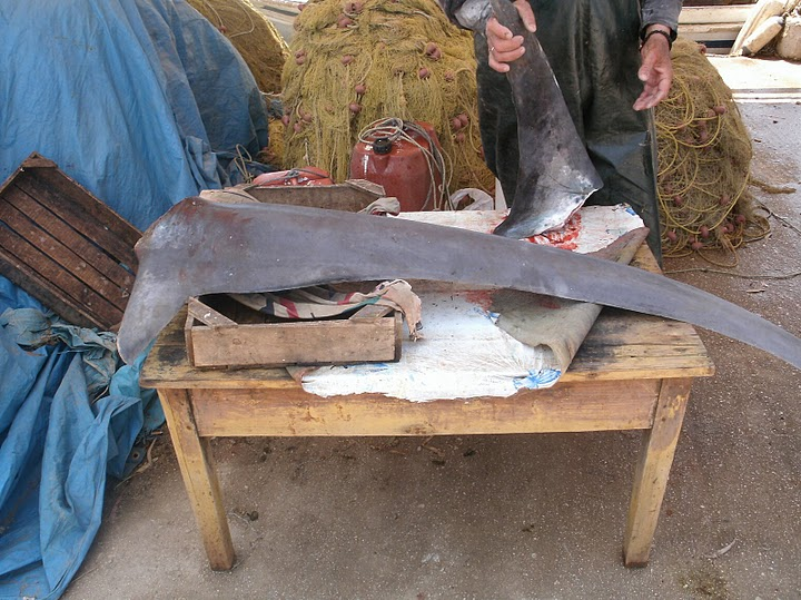 A fisherman in Nea Kios displays his catch in an impromptu marketplace along the quay.